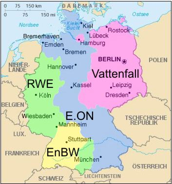 Map of control areas of transmission system operators (TSO) in Germany; 2003 status – outdated (all TSO corporate names changed since then)